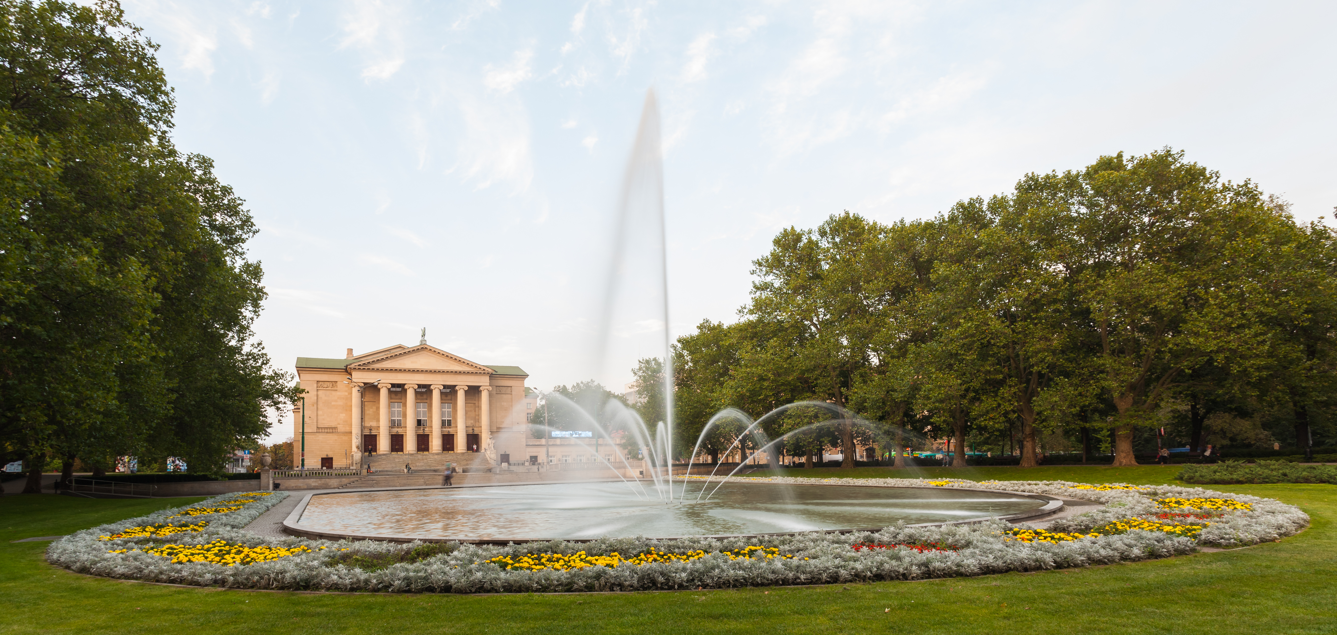 Teatr Wielki, Poznań, Poland